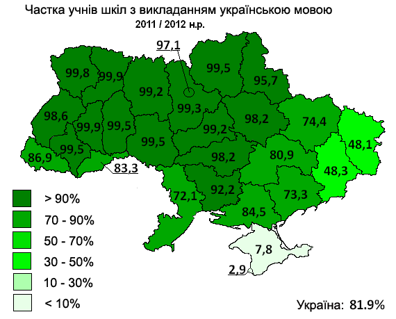 Share of students of schools with ukrainian language of instruction, 2011/2012.